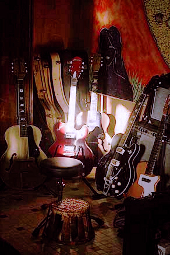 Some Harmony made guitars from my collection. SS Stewart gold acoustic, H73 Roy Smeck, H37 Hollywood, Silvertone 1423, H44 Stratotone. SS Stewart H73 Roy Smeck H37 Hollywood Silvertone 1446 H44 Stratotone